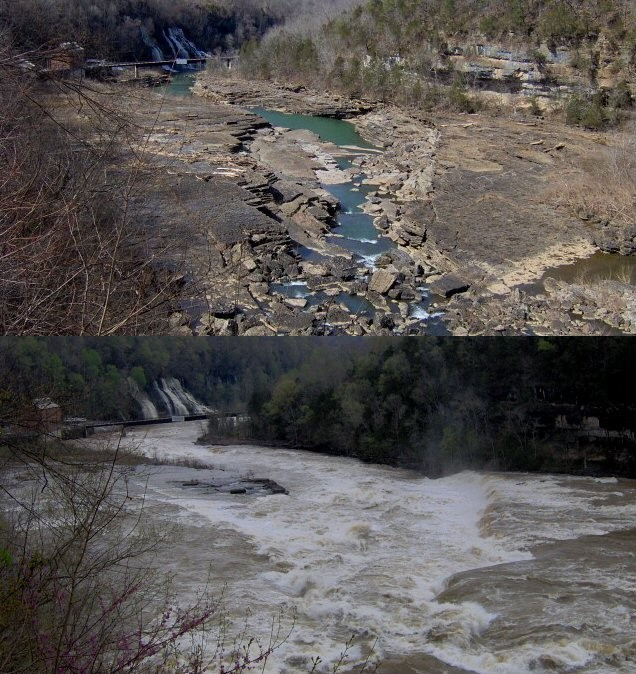 Looking northwest from the Gorge Overlook at Rock Island State Park in Tennessee, located in the Southeastern United States. The top picture was taken in early March, when the Caney Fork River was at a relatively low level. The bottom picture was taken a month later, when the water level was high, filling the entire gorge. Great Falls Dam's power plant and Twin Falls are in the distance.